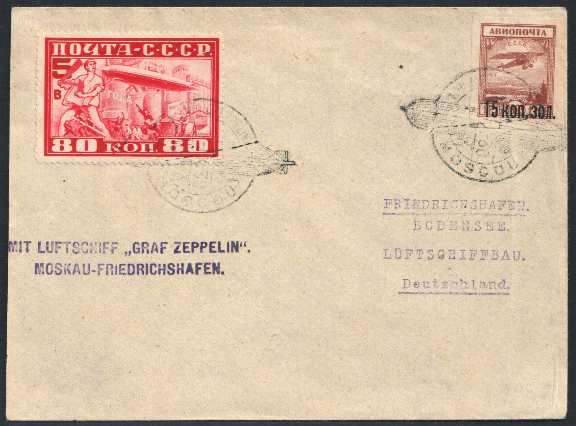 USSR 1930 cover shipped by LZ 127 Graf Zeppelin, franked with zeppelin stamp Michel 391A, with pictorial Moscow postmark showing an airship and Zeppelin route mark. On 10 September 1930 German airship “Graf Zeppelin” flew from Moscow to Germany, mail for despatch with this flight was accepted at the Moscow GPO, a few hours before take off. In addition to normal rates a fee was imposed and could be paid by stamps that were issued for this event. The rate for postcards was 40k (blue issue) and for letters 80k (red issue, shown here). Affixing both stamps on one mail item was not allowed. Catalogues: Sieger 85Bb (cover); Mi. 269 / CPA 205 (15k), 391A / CPA 359 (80k).